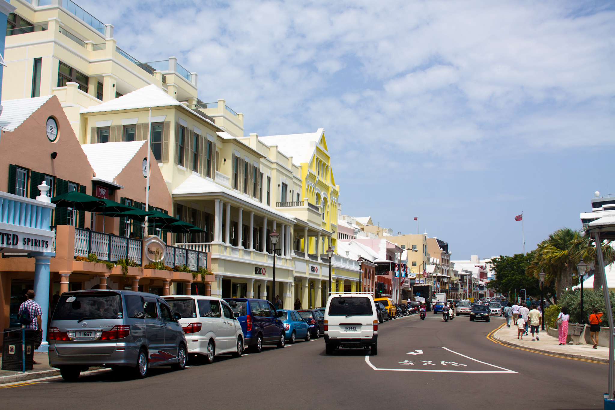 A view of Front Street at the corner of Queen Street in Hamilton, Bermuda.